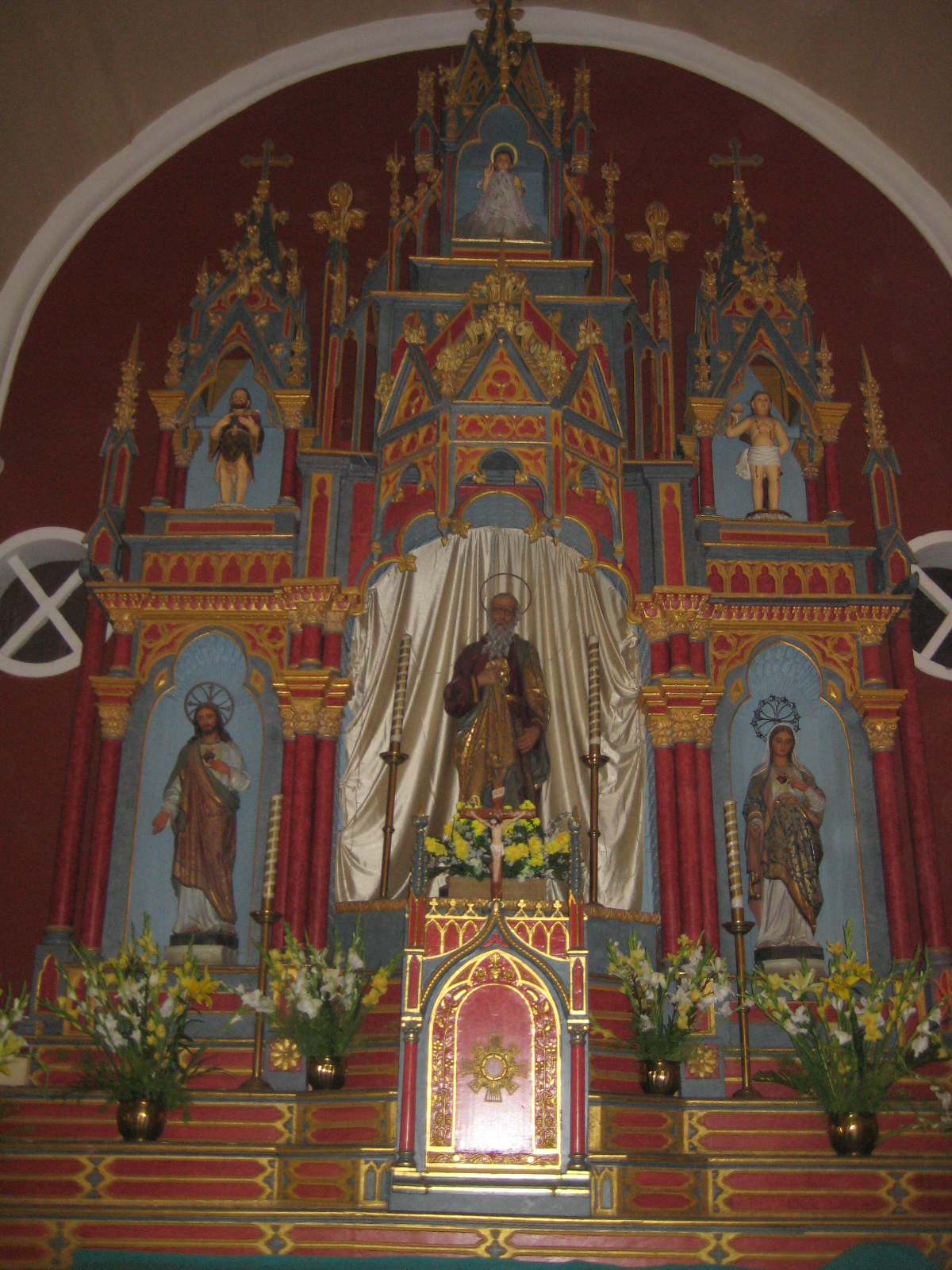 Its shows the main altar of St. Andrews Church, Hill Road, Bandra with the Patron St. Andrews statue in the centre of the altar